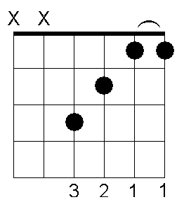 Chord diagram (chord F).